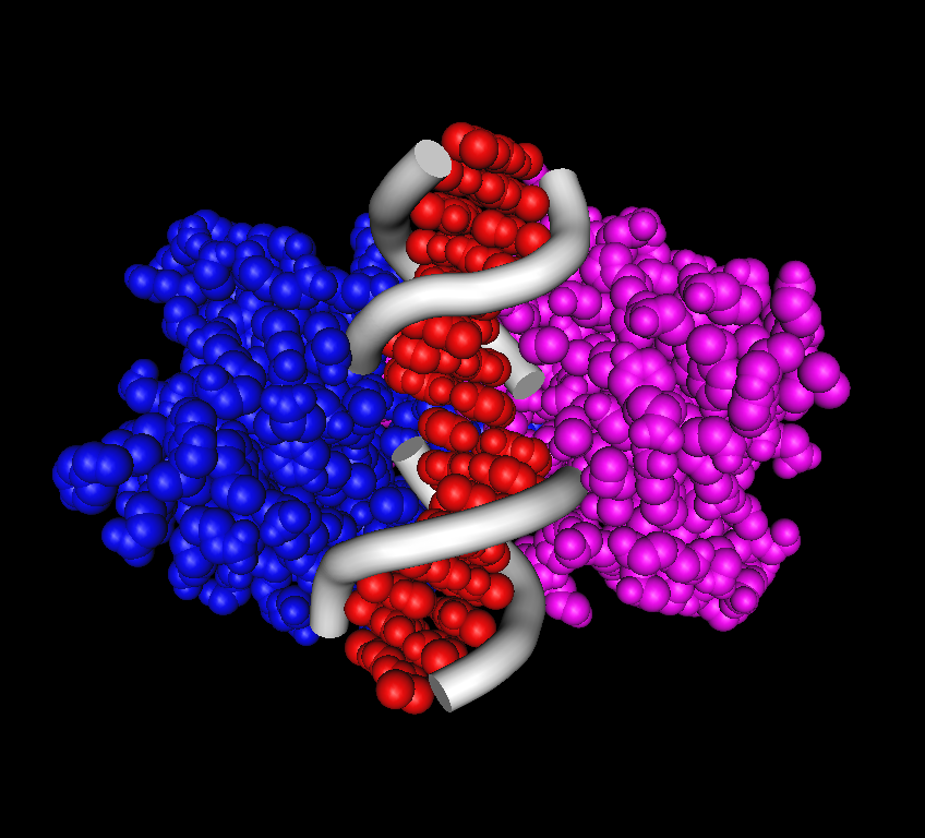 EcoRV endonuclease in complex with cleaved DNA fragment. Created from MMDB entry 54280 using visualization package Cn3D4.1